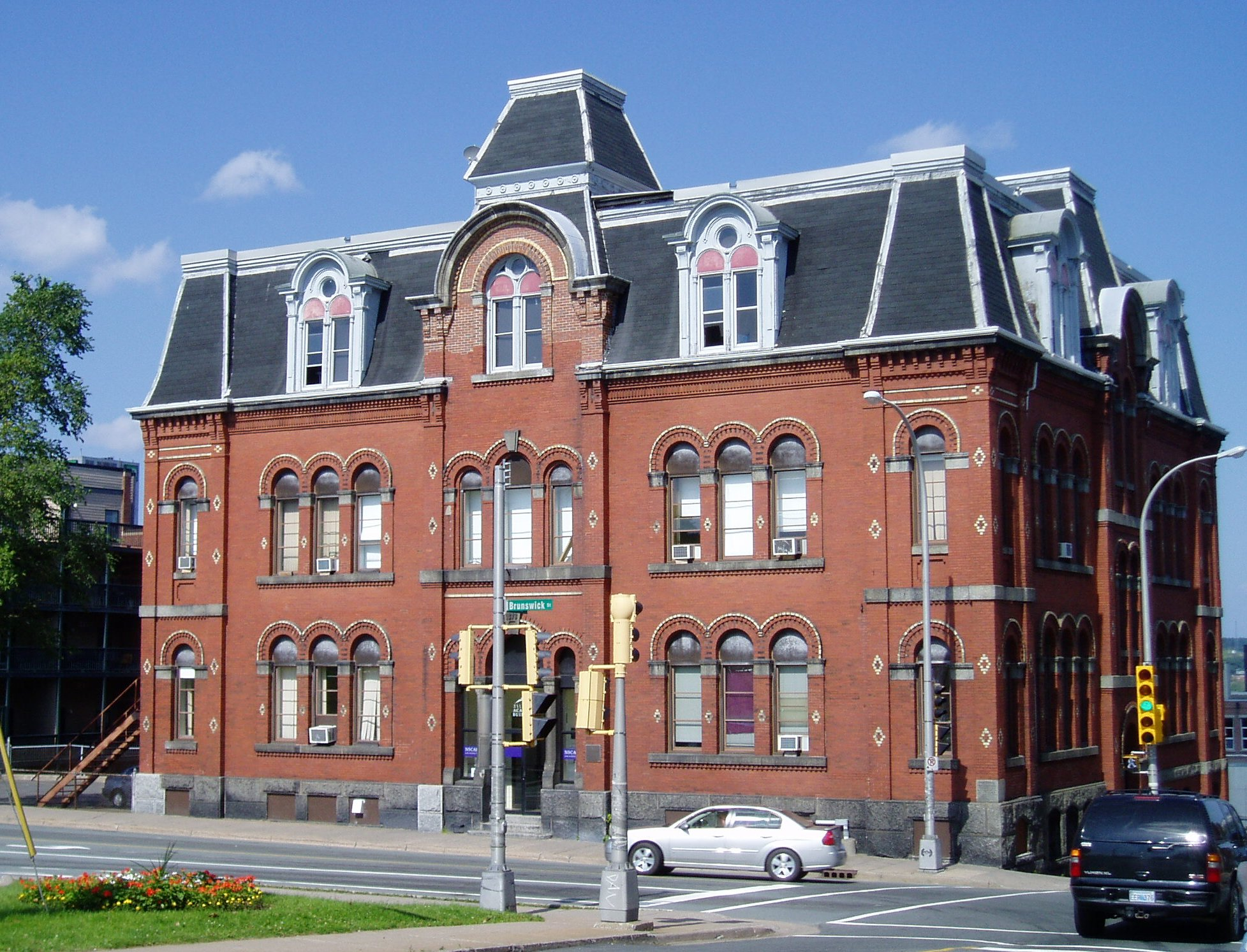 NSCAD University's Alliance Atlantis Academy building on Brunswick Street, Halifax, Nova Scotia. Taken by SimonP